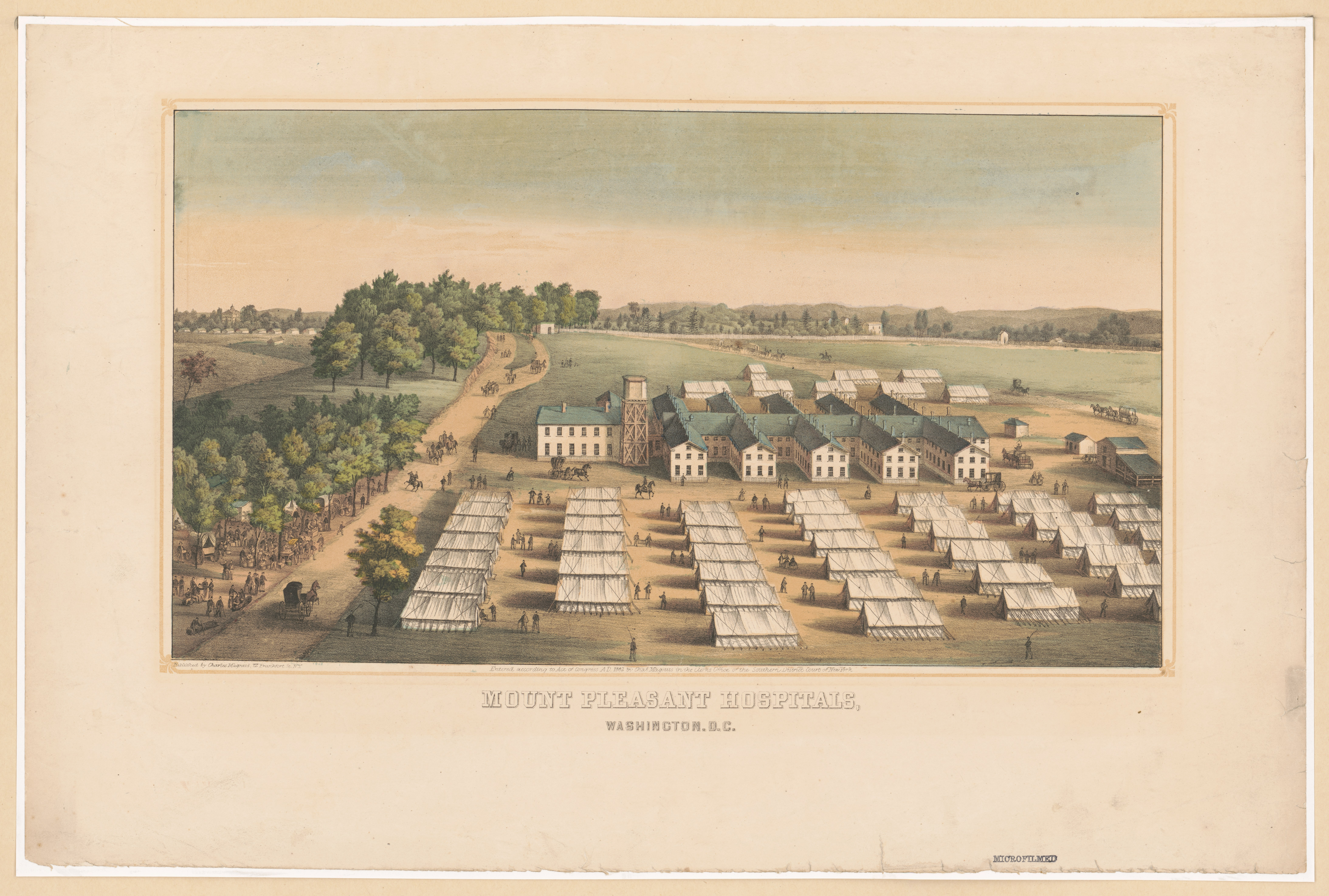 Title: Mount Pleasant Hospitals, Washington, D.C. Abstract/medium: 1 print : lithograph, hand-colored ; sheet 35 x 53.5 cm.